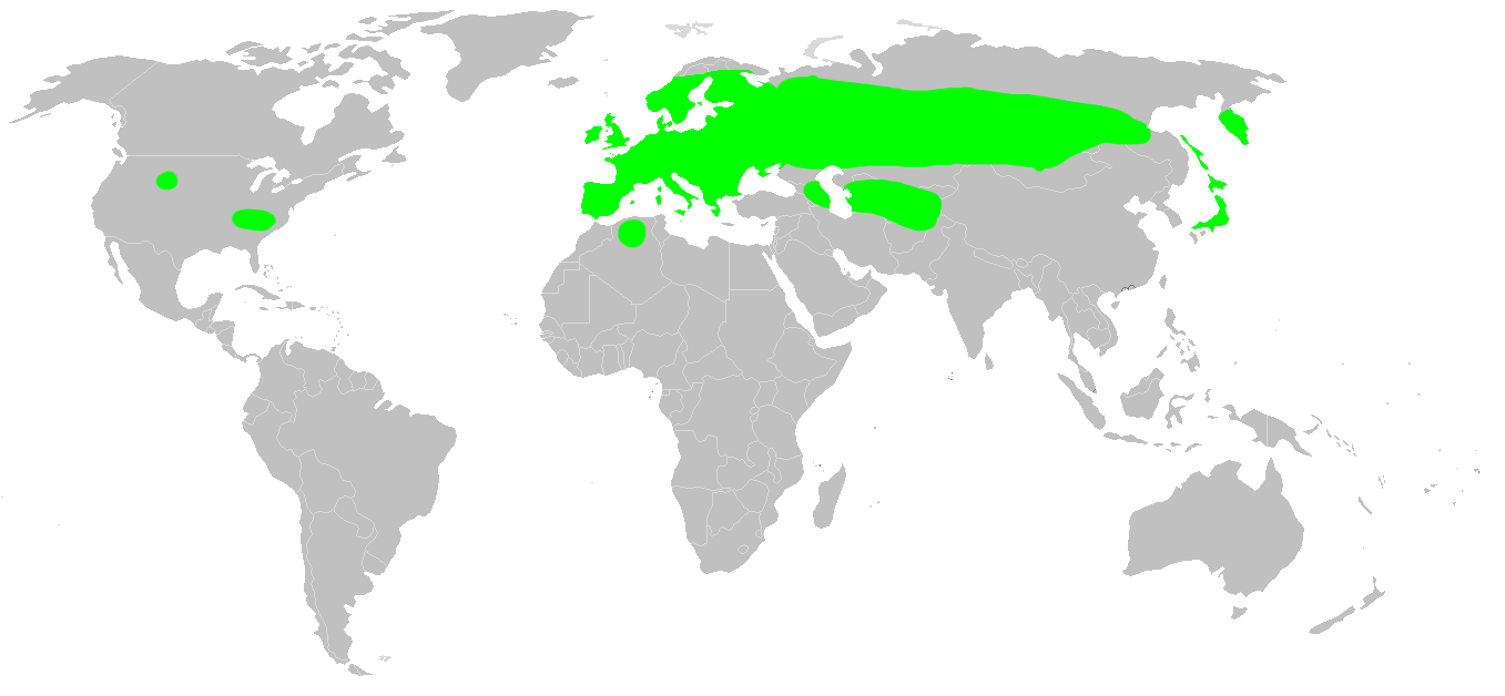 Rough known world distribution of Evarcha falcata (Salticidae), after British Arachnological Society, 2006.